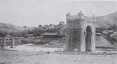 Independence Gate in 1897